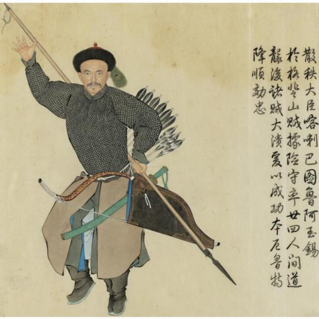 Ayuxi / mandsch. Ayusi (阿玉锡 a yu xi ) , an officer of the Qing Army.